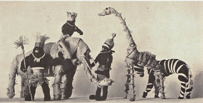 Minka Podhajská: Afrika (toys made from jute), 1928